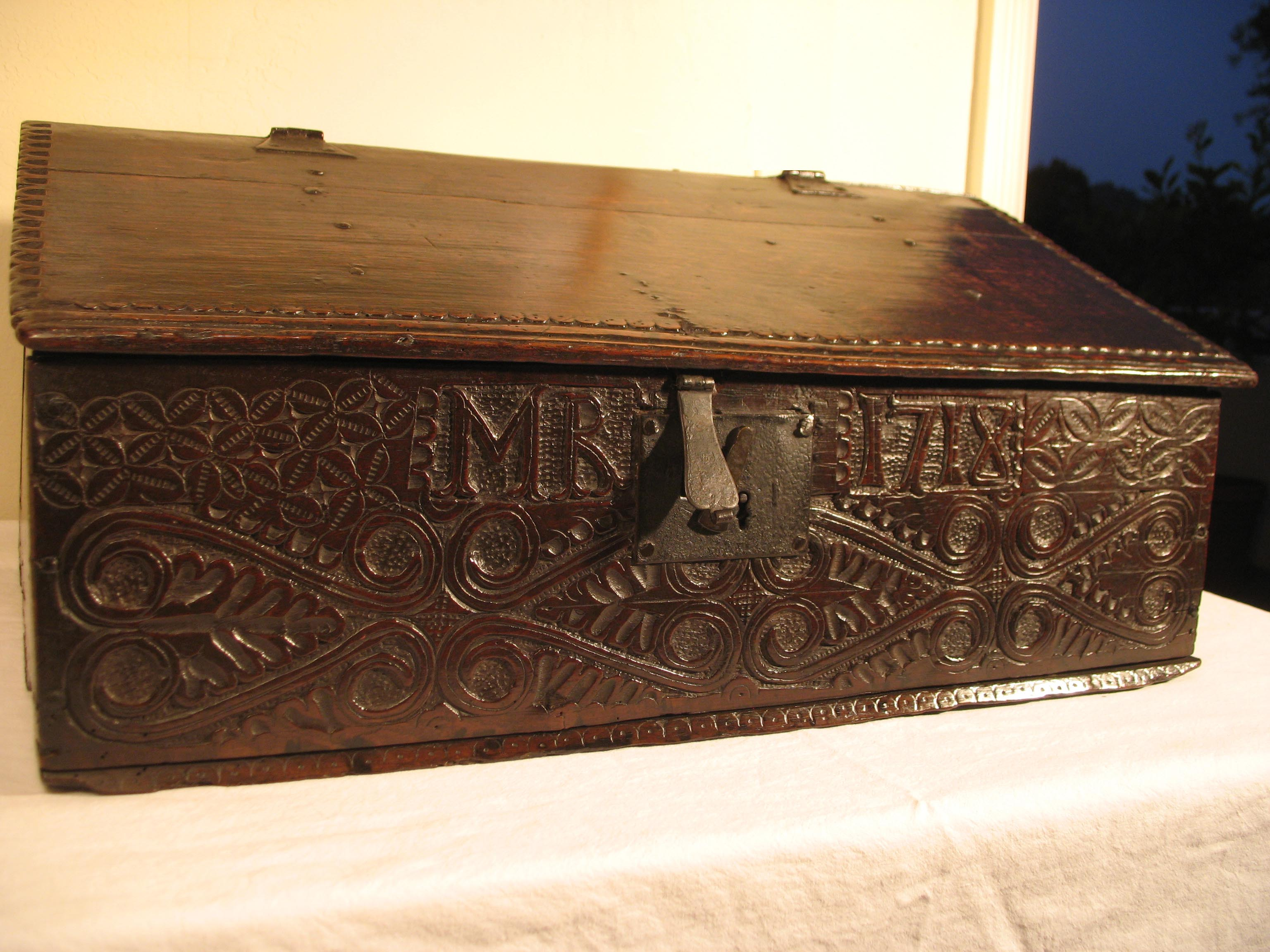 Bible Box 18th Century